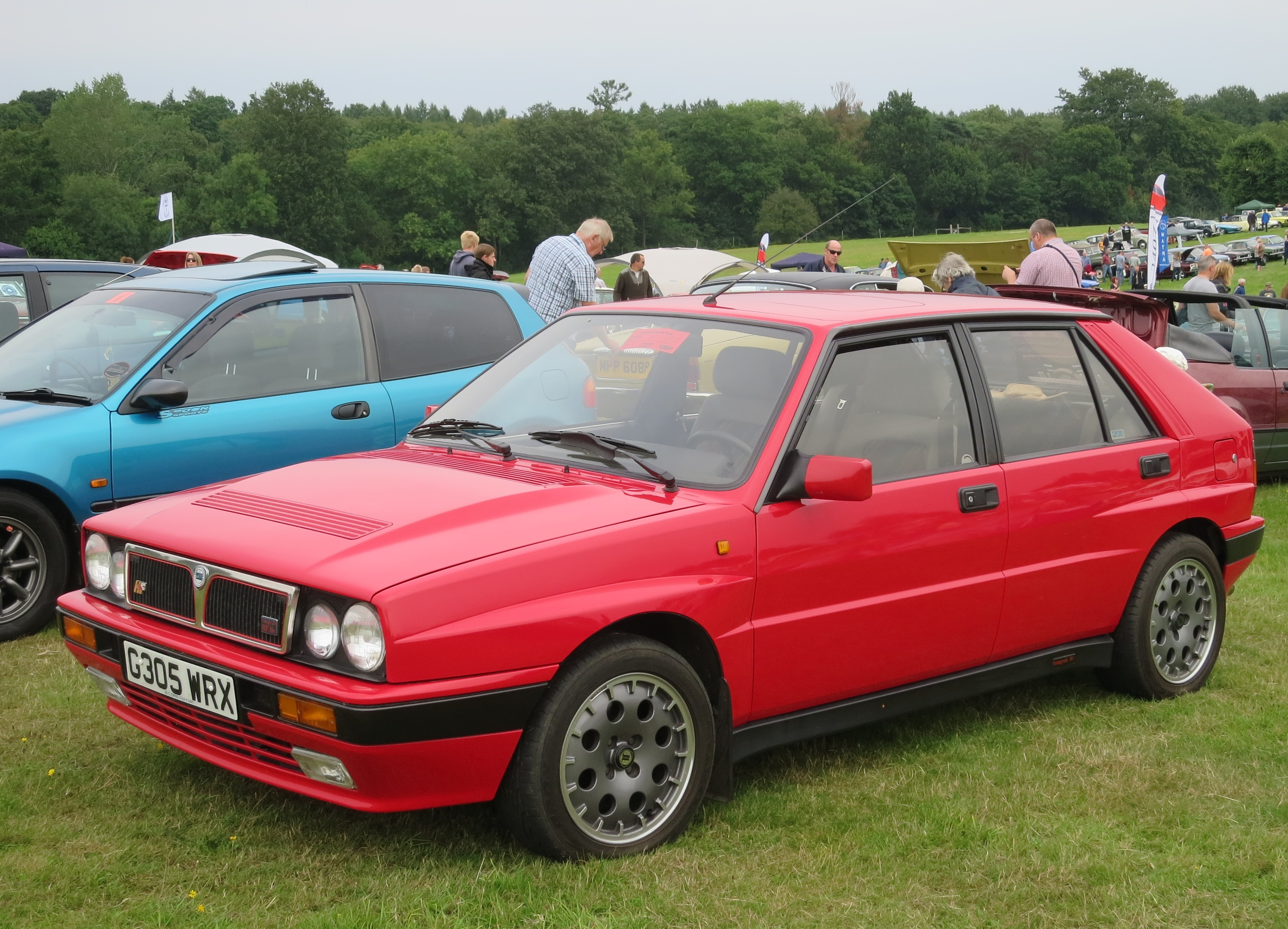 Lancia Delta HF Integrale (1989) at Knebworth (2015)